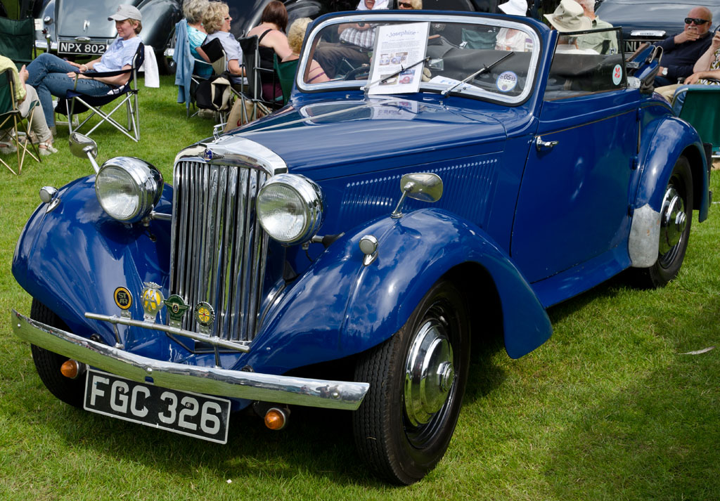 Talbot Ten drop head coupé 1938(DVLA) first registered 9 July 1938, 1141 ccHebden Bridge Vintage Weekend 05/08/2012